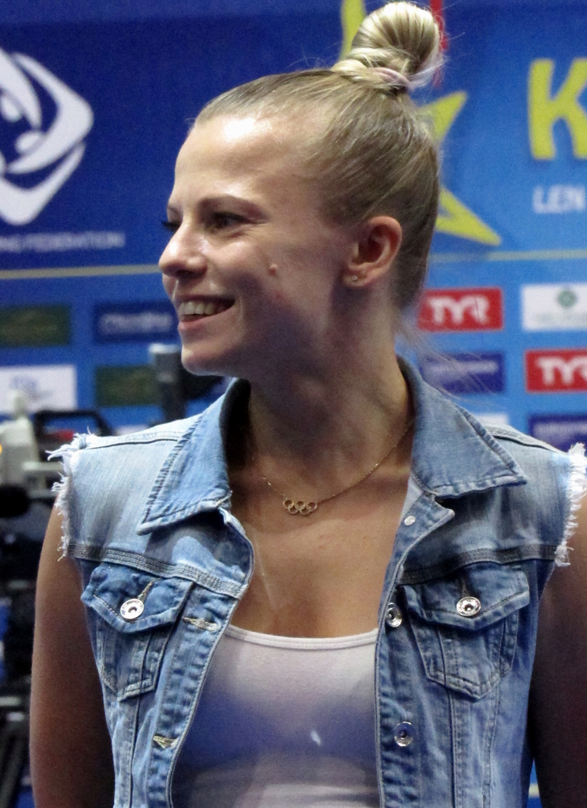 Ukrainian diver Yulia Prokopchuk during the 2019 European Diving Championships in Kyiv